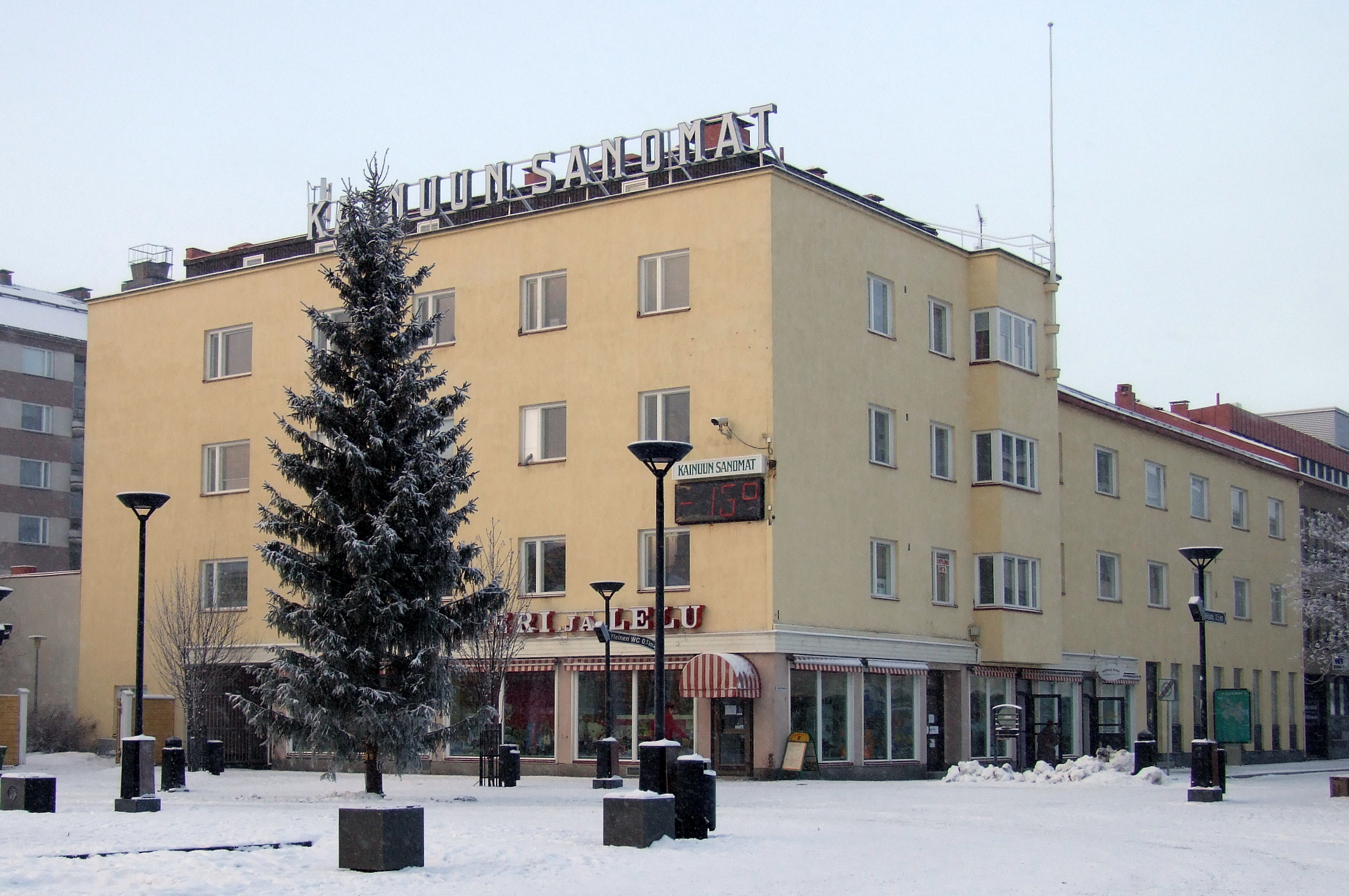 The headquarters of the newspaper Kainuun Sanomat in Kajaani, Finland.